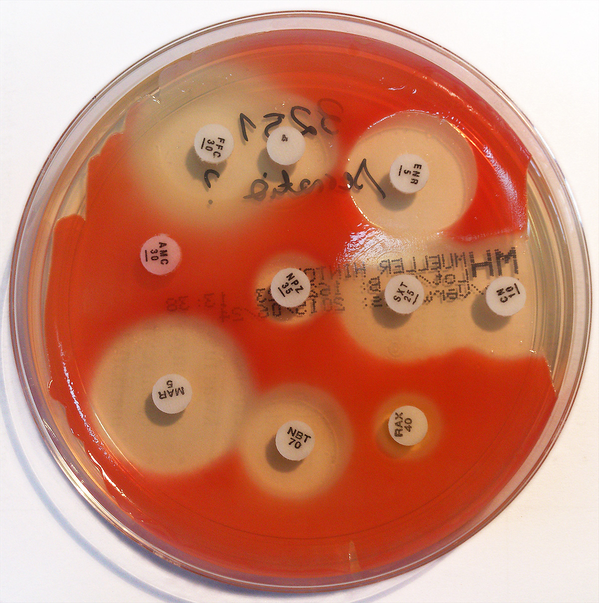 Antibiogram of Serratia marcescens. Reddish-orange pigment called prodigiosin is clearly visible on picture.